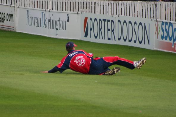 Mark Turner executes a sliding stop at Taunton, June 27 2007